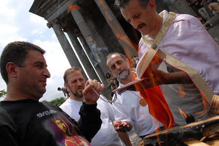 Hetan priest initiating follower at the Temple of Vahagn in Garni, Armenia.